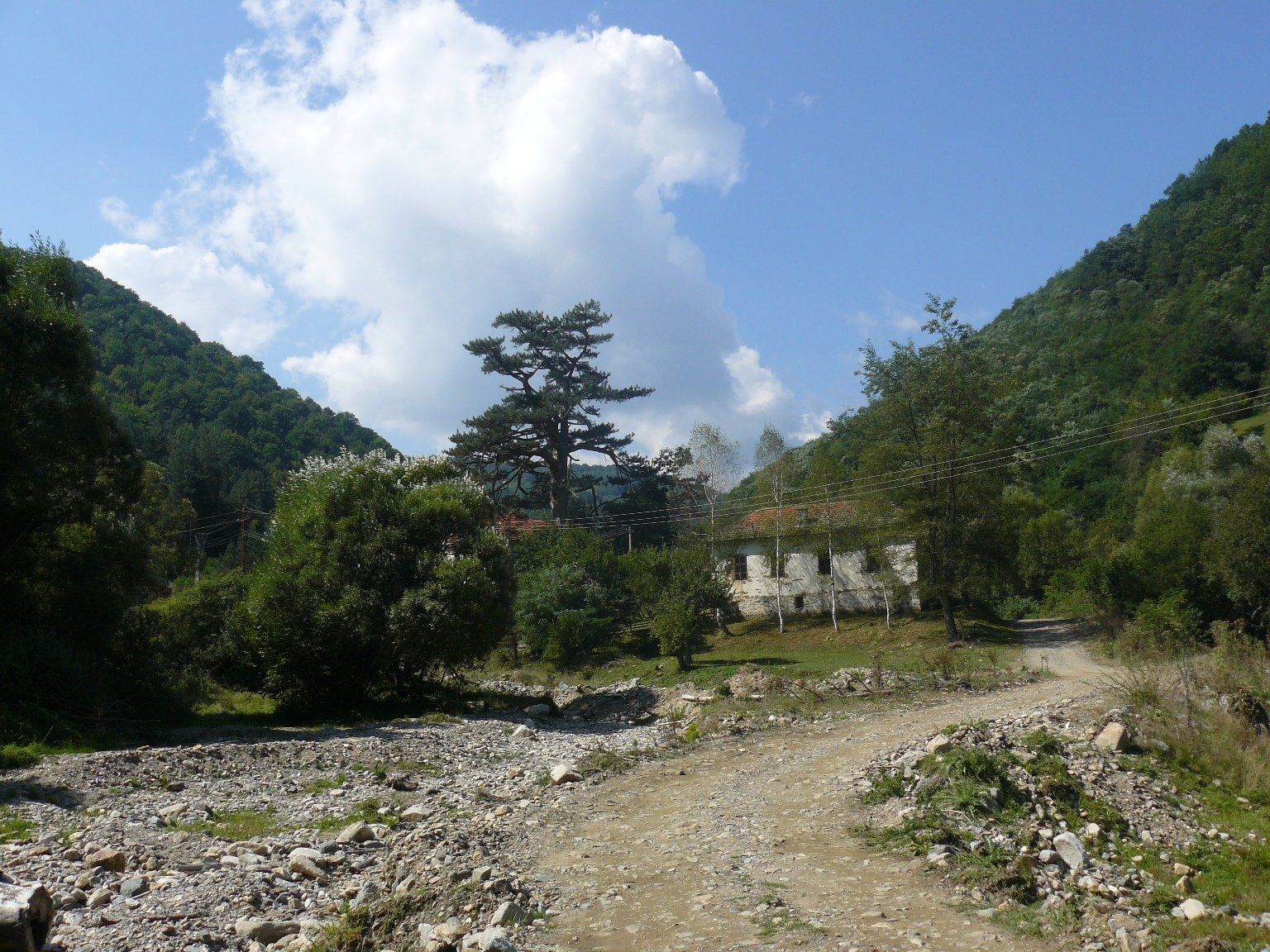 с. Църнощица - Църквата, Босилеградско